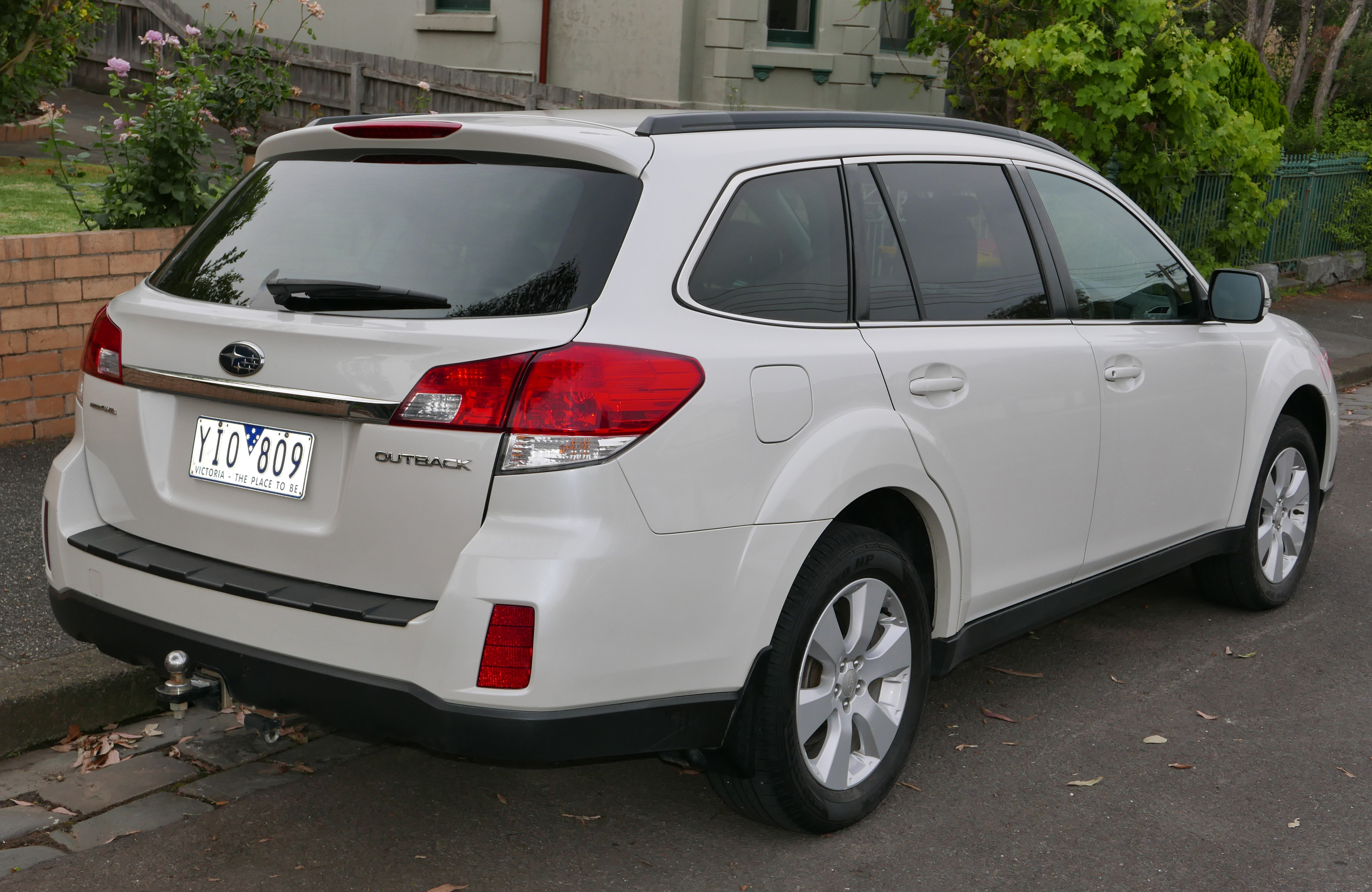 2011 Subaru Outback (BR9 MY11) 2.5i Premium station wagon. This has been listed as the 2.5i Premium due to the fitment of a sunroof [1]. Photographed in Flemington, Victoria, Australia. Vehicle registration enquiry resultsJurisdictionVictoriaRegistrationYIO809Chassis codeJF2BR9K95BG022027Engine codeE342937Compliance date2011-02Year of manufacture2011